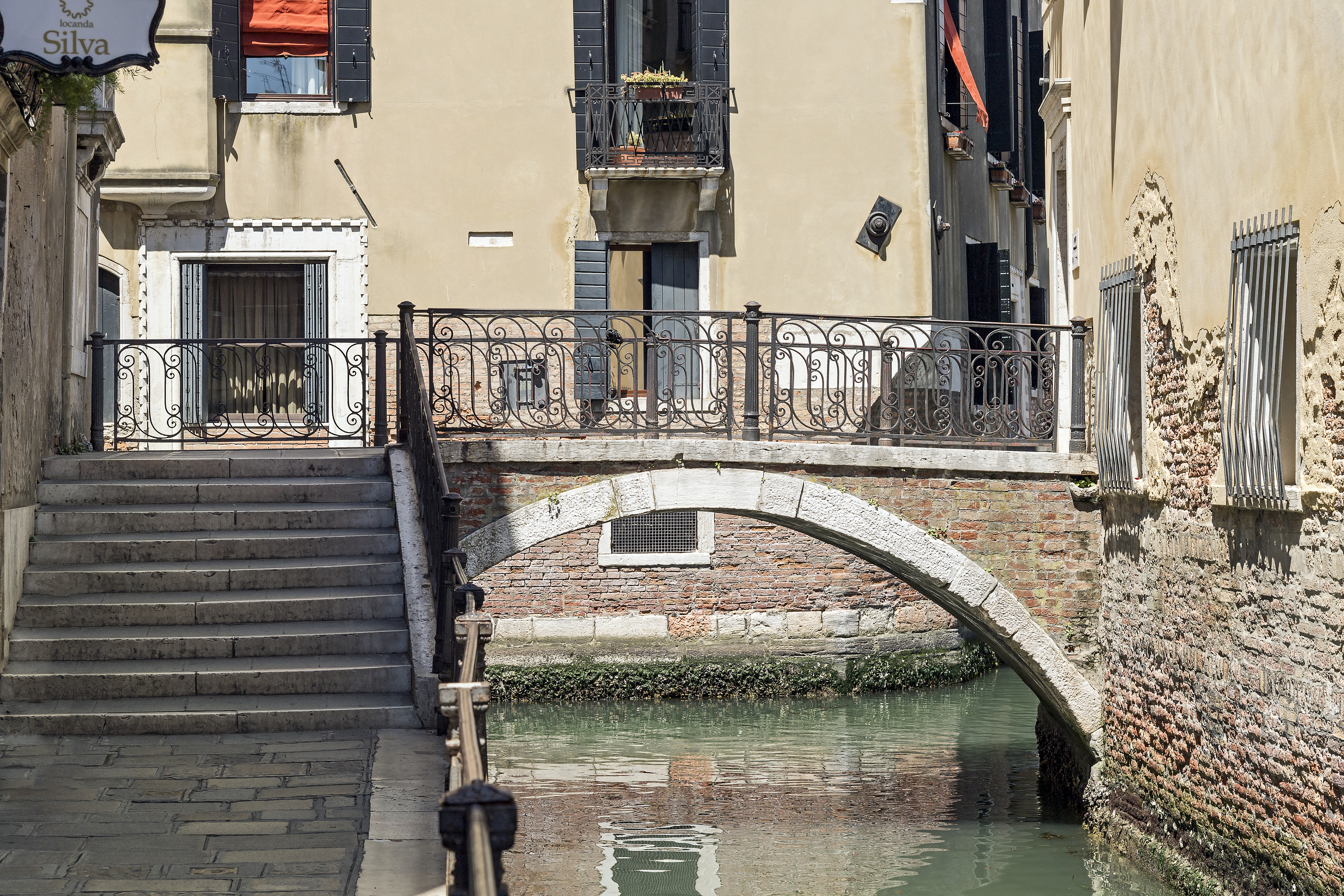 Ponte Pasqualigo e Avogrado on rio del Remedio(Northern part of rio San Zaninovo, seen from the fondamenta del Remedio.